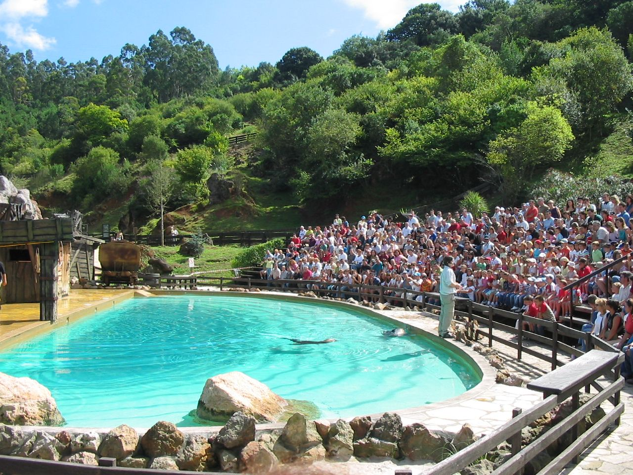 Natural Park of Cabárceno. Cantabria, Spain